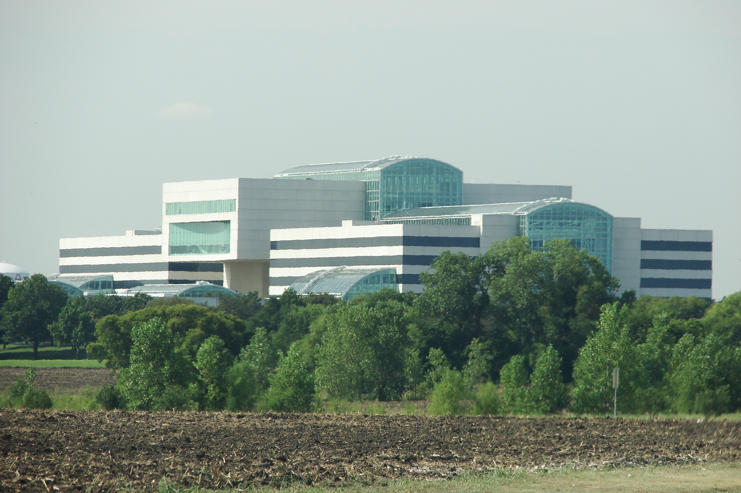 HP Enterprise Services (formerly EDS, Electronic Data Systems) corporate headquarters in Plano, Texas.